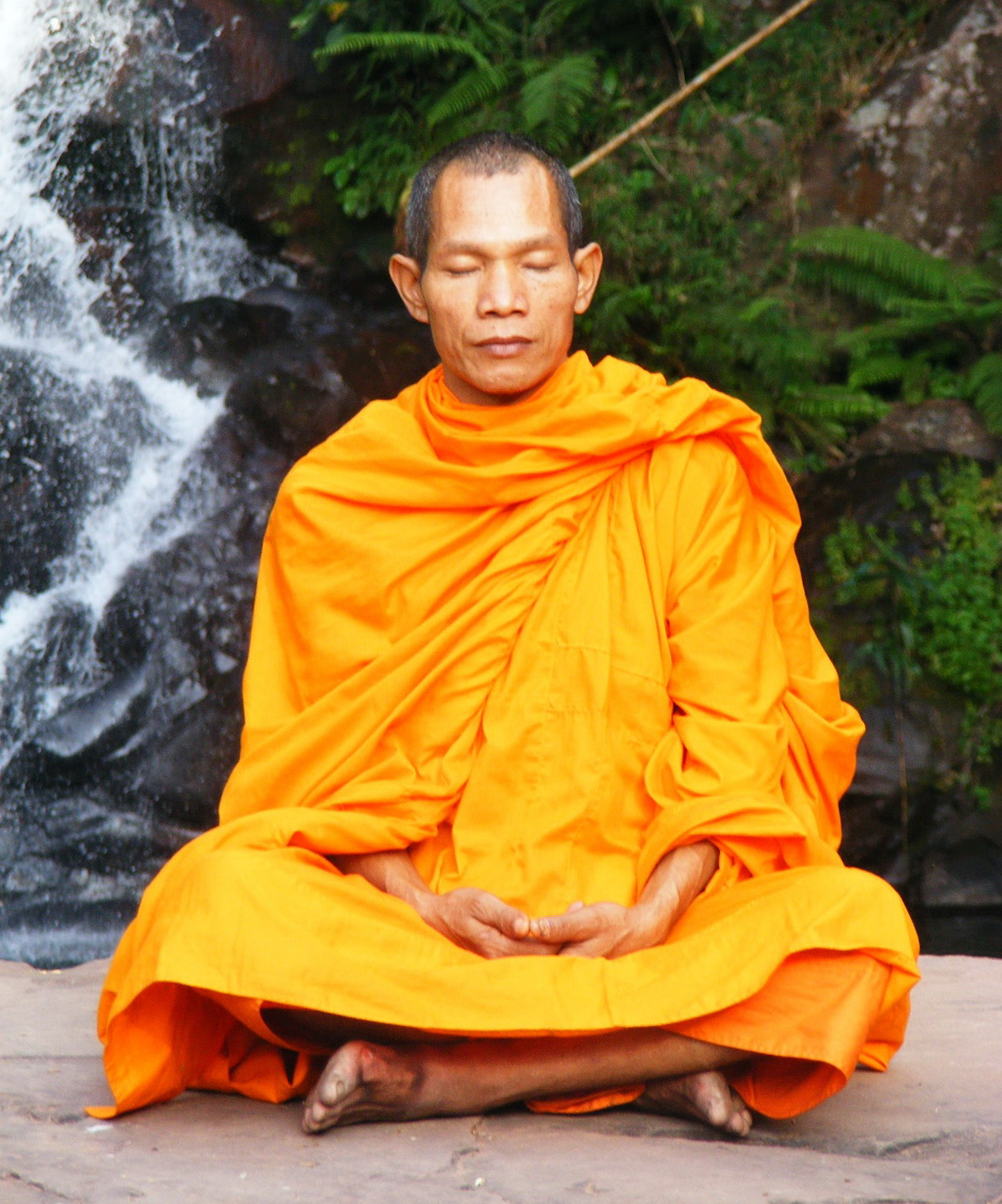 Phra Ajan Jerapunyo-Abbot of Watkungtaphao Buddhist monk in Phu Soidao Nationalpark, Phu Soidao Nationalpark Waterfall, Thailand, Uttaradit ProvinceLocation: Phu Soidao Nationalpark Thailand.